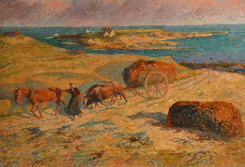 Récole du goémon, Raguenes par Eugène Cadel. Dim. : 50 x 73 cm.